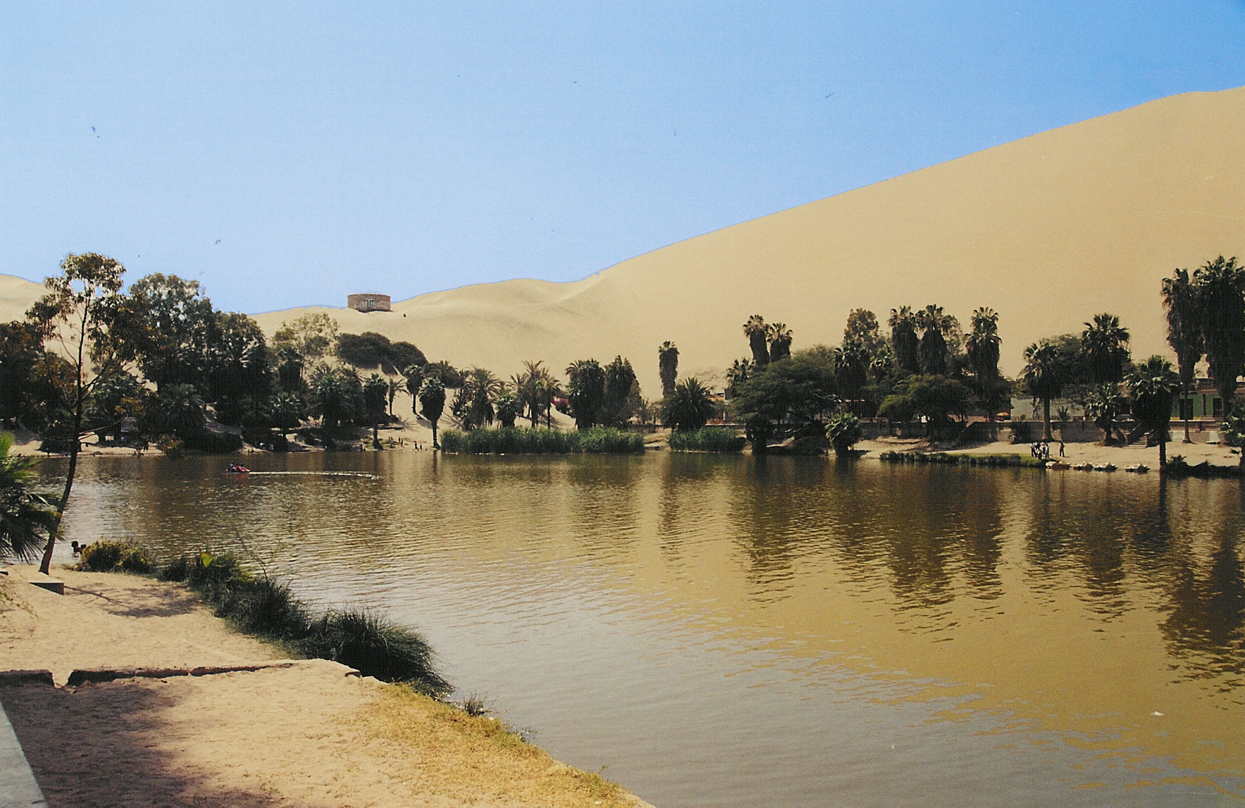 Oasis near Ica in Peru